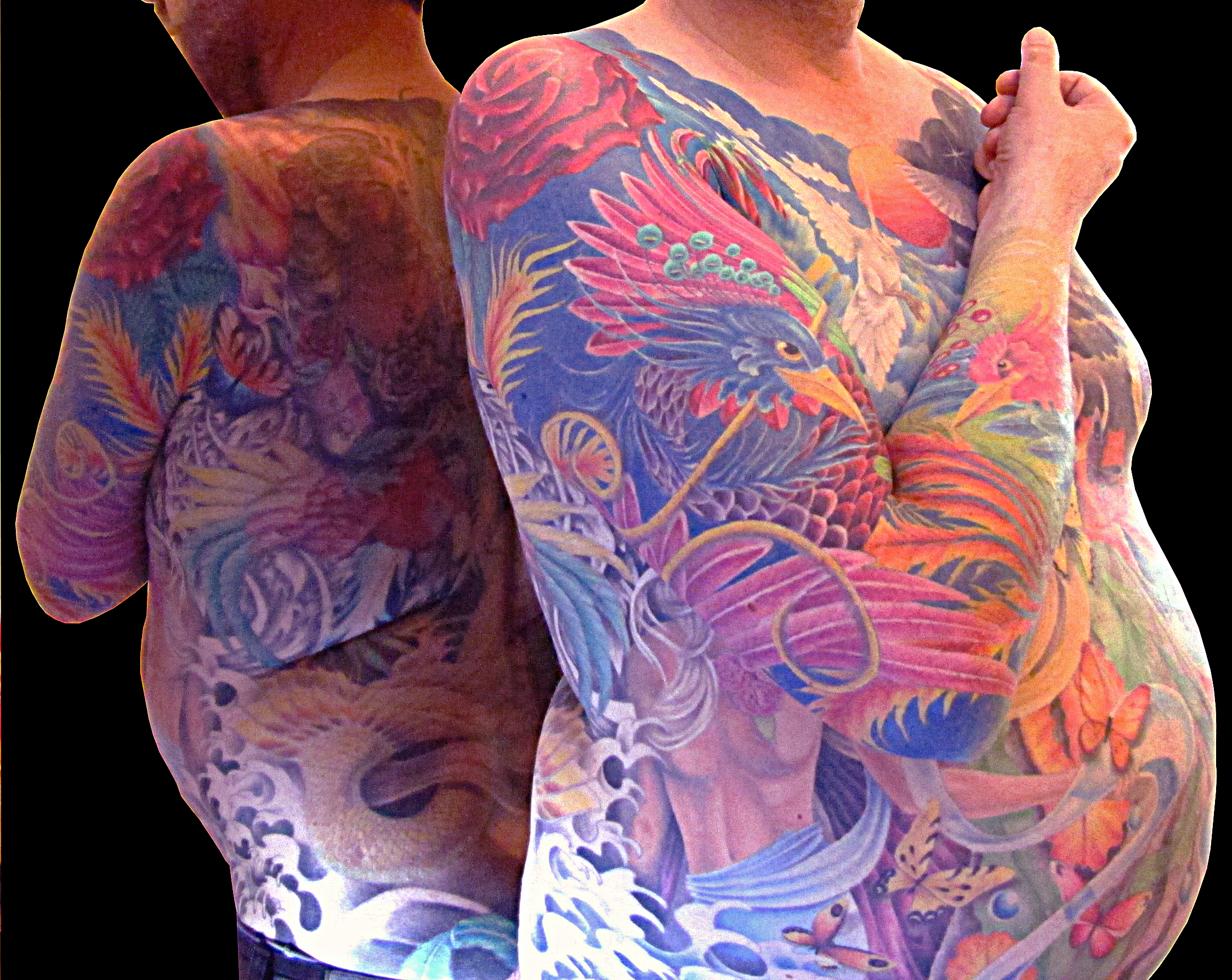 Phoenix full sleeve tattoo, tattooed by Maaika on Menno, april 2013 - november 2014, as part of a full body suit.